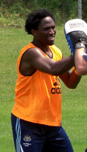 Celestine Babayaro (Nigerian footballer) (cropped)